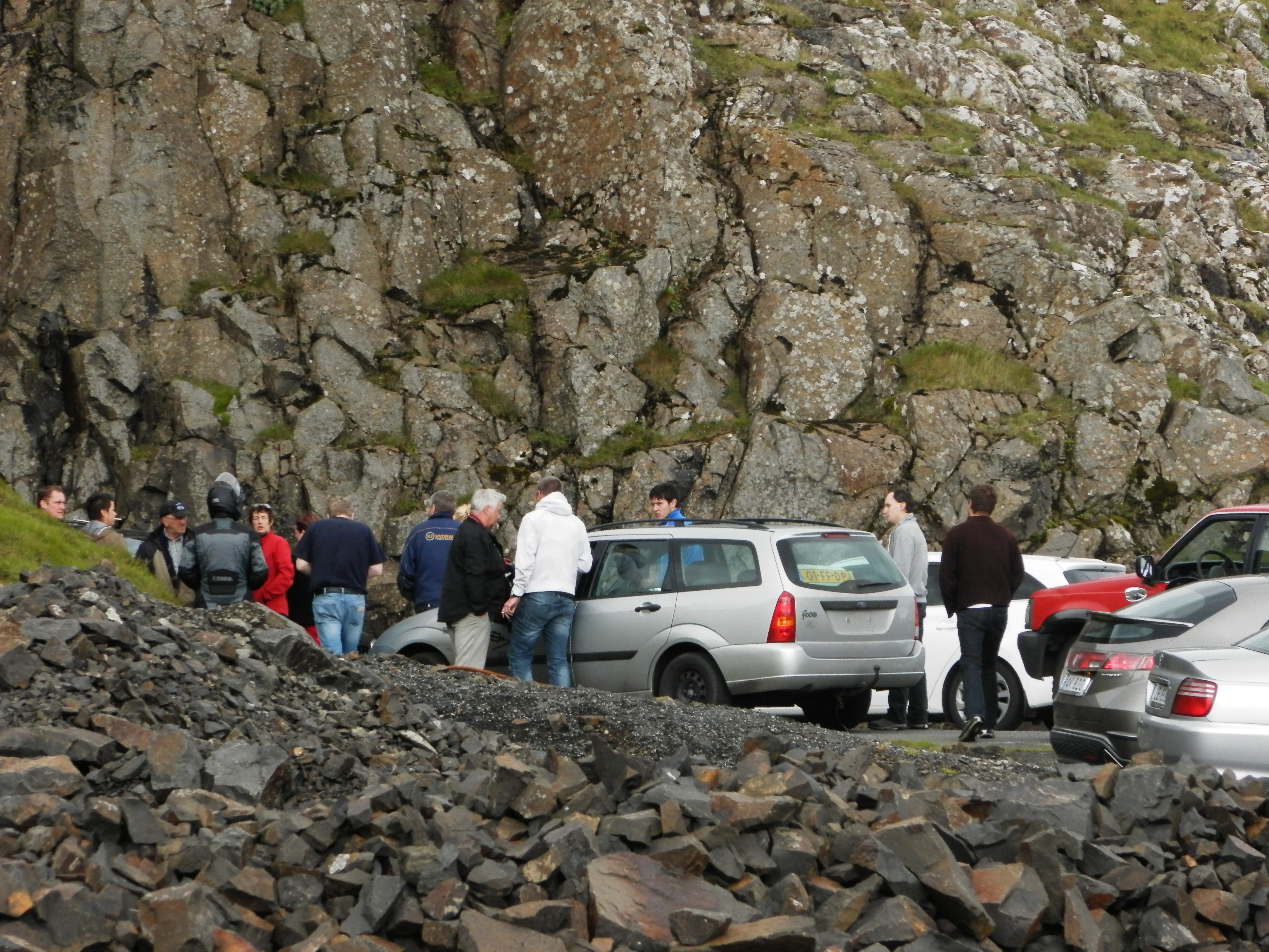 Outside the tunnel between Trongisvágur and Hvalba in Suðuroy, Faroe Islands. There was "grindaboð" in Hvalba, which means that a pod of pilot whales had been spotted near the village and was supposed to be driven into the bay of Hvalba. Finally the pod dived and swam away, so no whale was slaughtered on this day. The gray car belongs to Sea Shepherd, they passed by all the lang car que in order to get to Hvalba throught the one-lane tunnel at the same time as a bus came from Hvalba. That was what caused the long que. Some people prevented them to enter the tunnel.